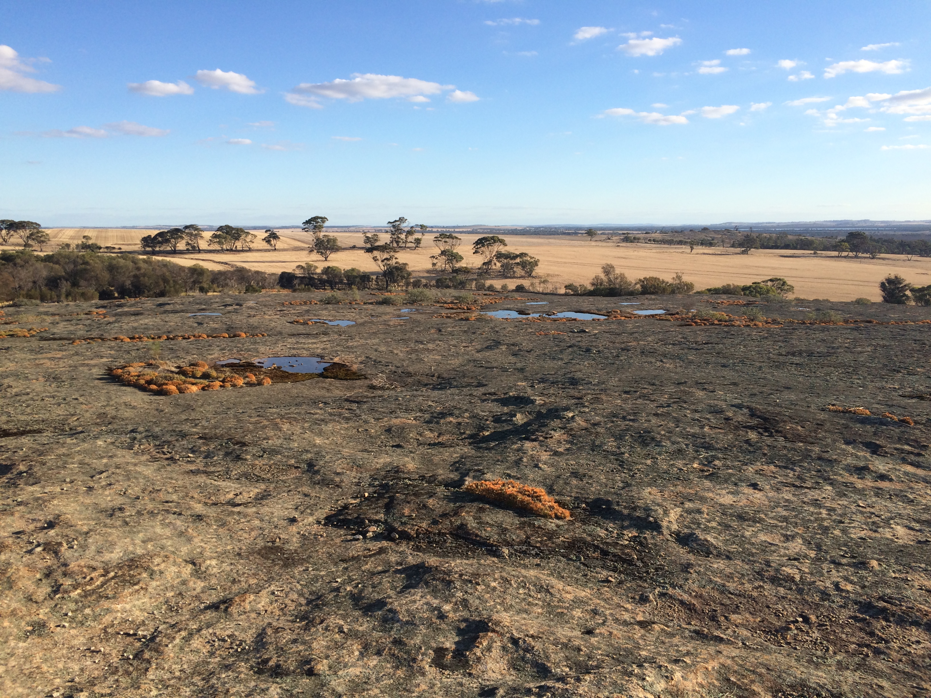 On top of Puntapin Rock facing east over wheat fields